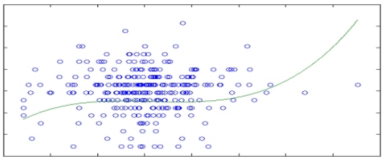 WarpPLS public domain logo.